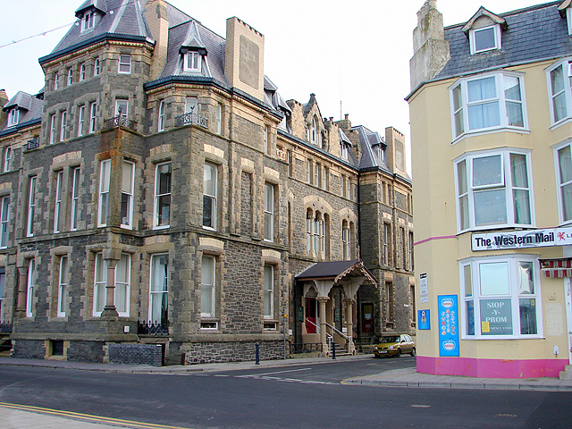 Aberystwyth Registry Office A webcam is situated on the Registry Office